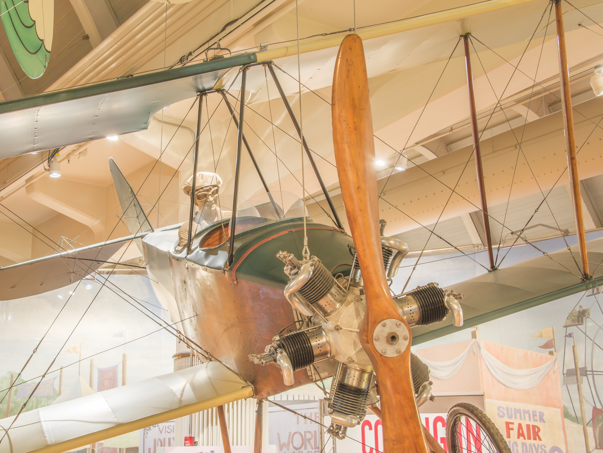 In 1915 Emil "Matty" Laird built this biplane. He was around 20 years old and this was his third airplane. The plane was known as the Boneshaker due to the strong vibrations produced by its Anzani engine. The plane was designed for exhibition acrobatics and it filled that role well. For instance, at that time it was one of a small number of American planes that could perform the loop-the-loop. Laird loaned the plane to Katherine Stinson for exhibitions in Japan and China. The Boneshaker garnered significant international attention during that tour. The Boneshaker is displayed at the Henry Ford Museum of American Innovation.